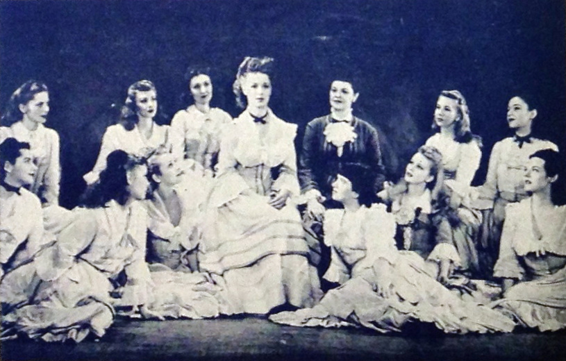 Scene from the original production of Carousel. Song seems to be "What's the Use of Wondrin'", with Iva Withers as Julie.